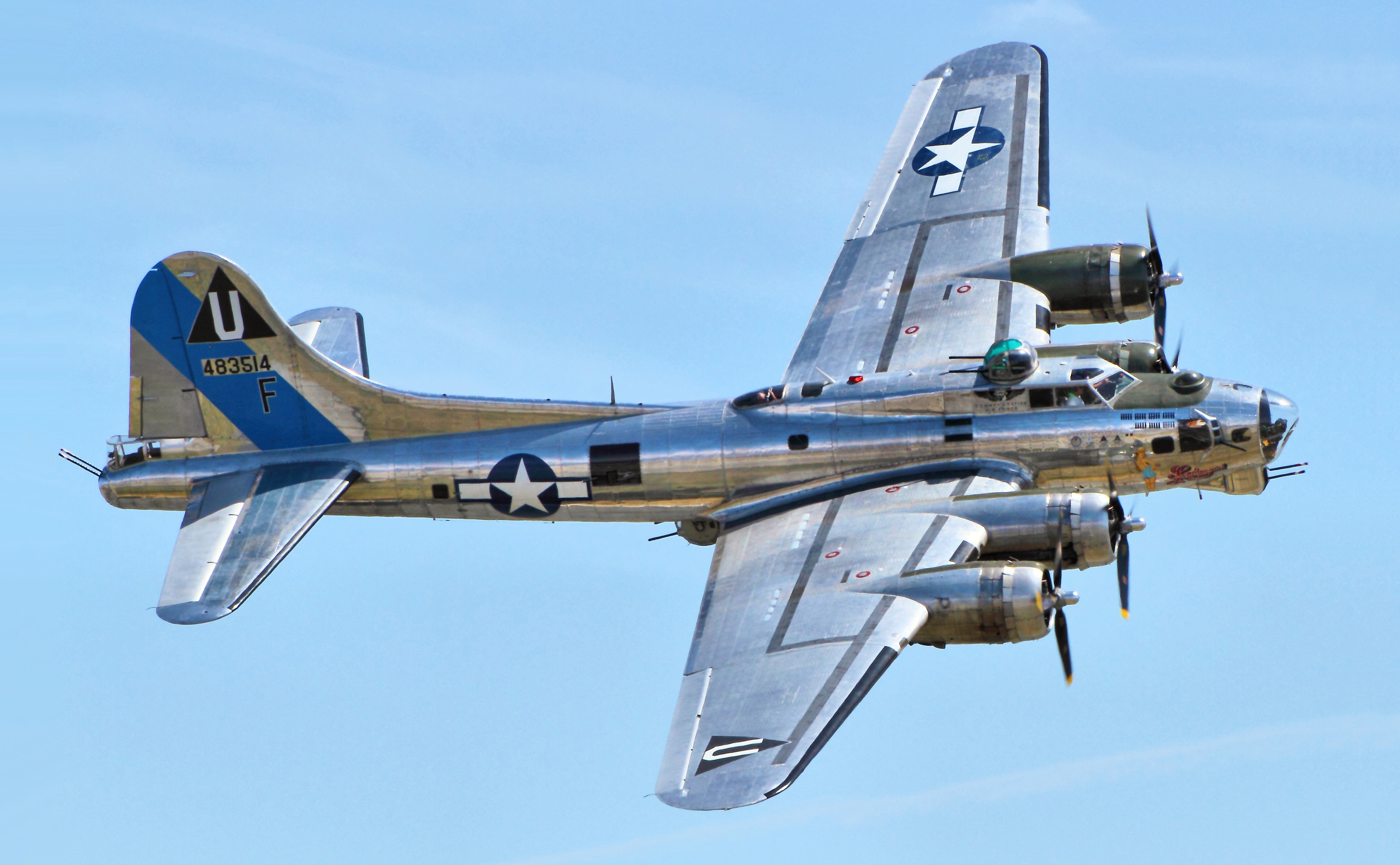 B17 - Chino Airshow 2014